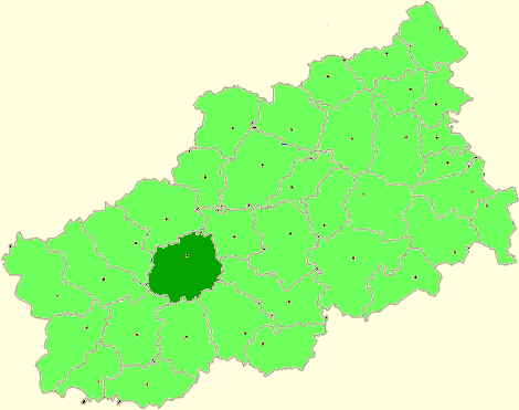 Tver Oblast map by Al Silonov